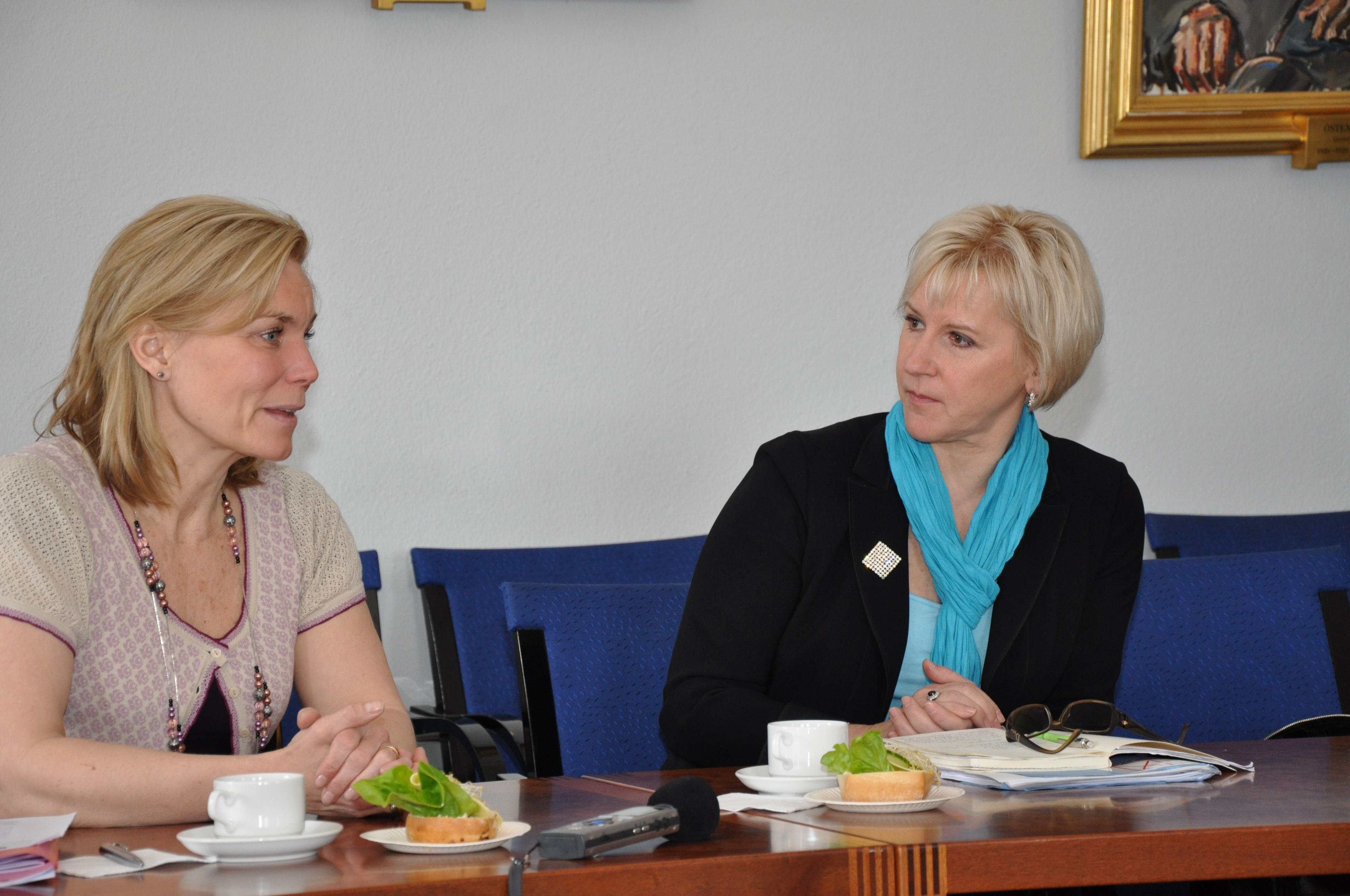 at the Foreign Ministry, Stockholm, Sweden